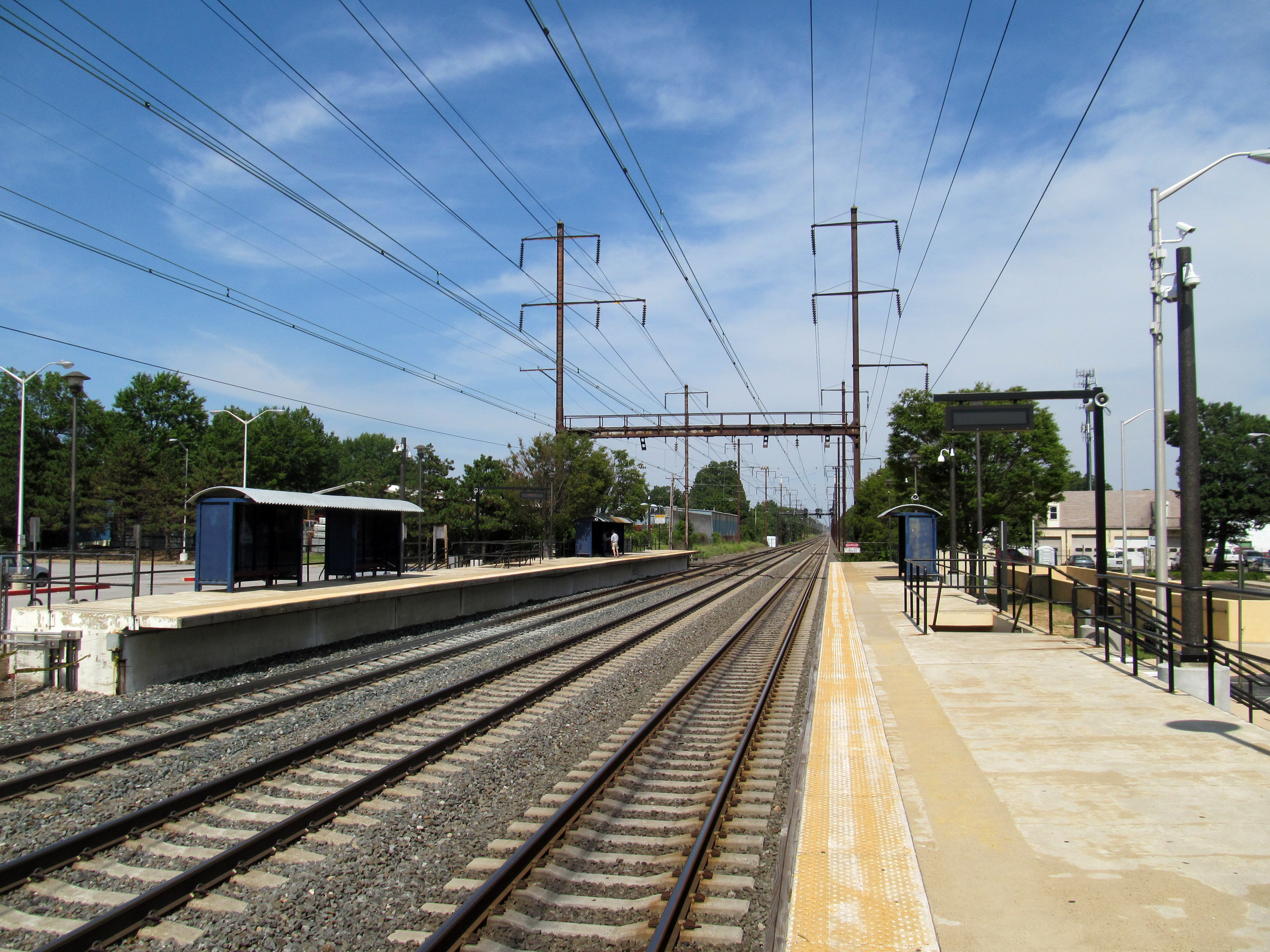 Looking northeast from the northbound platform at Seabrook station